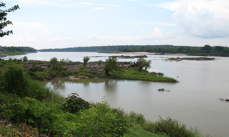 The Mekong River in Amphoe Khong Chiam, Ubon Ratchathani Province, Thailand.